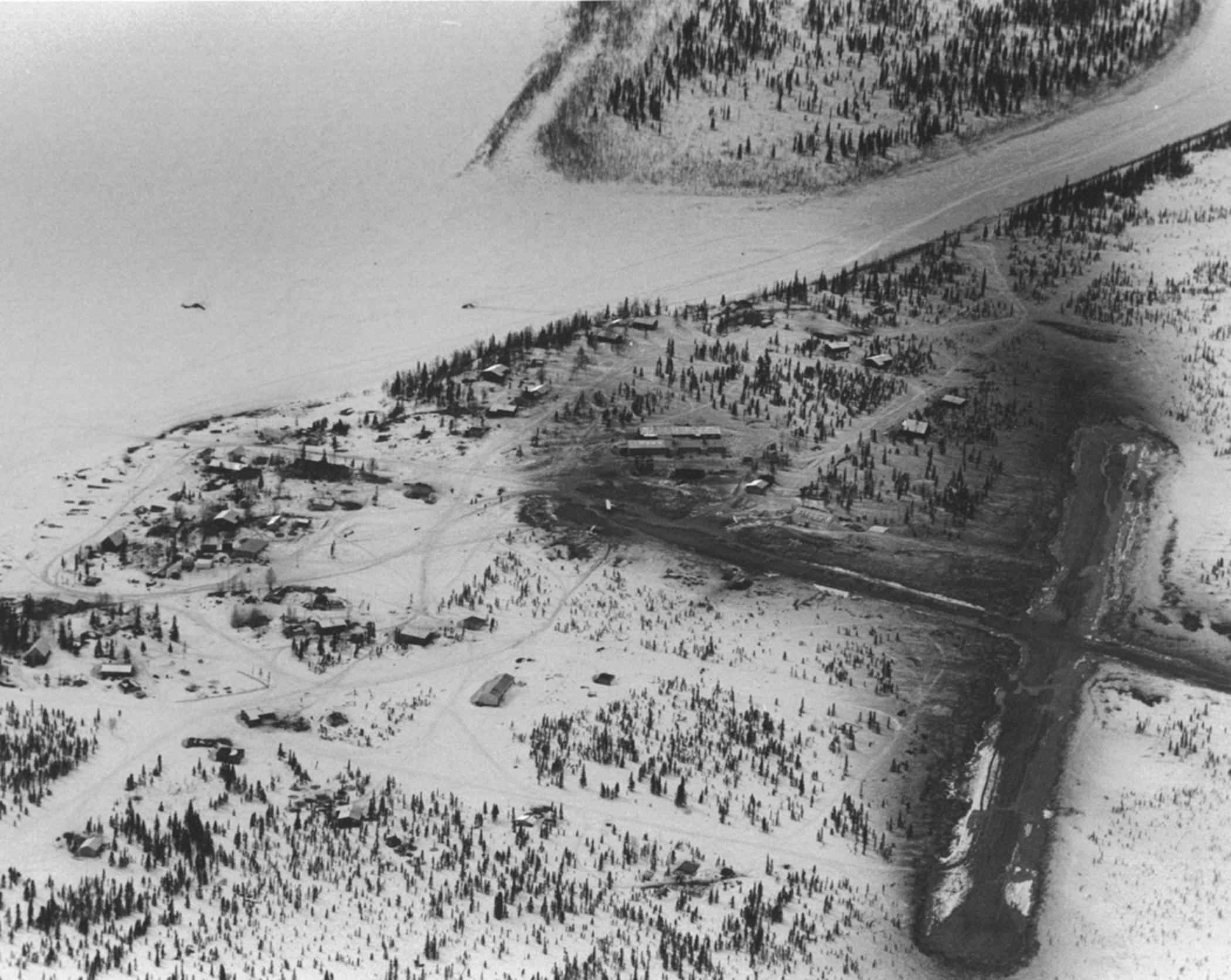 Image title: Aerial winter view of the village of ambler Alaska Image from Public domain images website